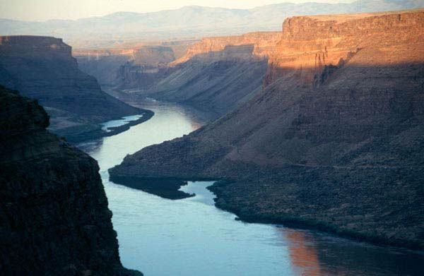 Snake River Birds of Prey National Conservation Area Snake River Birds of Prey NCA Mentioned in Better Homes and Gardens Magazine. Article describes NCA as one of North America's favorite spots for bird-watching. Boise District Office. In the April 2007 edition of Better Homes and Gardens magazine, the Snake River Birds of Prey NCA was described as number three of five favorite spots for bird-watching throughout North America. A beautiful photo of sunrise in the Snake River Canyon, taken by BLM Outdoor Recreation Planner Larry Ridenhour, is included in the article. Readers are told, “Eagles, hawks, falcons, owls and vultures nest in the canyon walls, ride the updrafts (thermals) rising from the valley and hunt the sagebrush-covered mesas for ground squirrels and jackrabbits.” "The NCA is mentioned in the magazine's "Long Weekend Living" section in an article titled "Flights of Fancy". The subhead reads, "No matter where your family lives, birds are taking flight right now. Enjoy spring migration--and one of nature's great wonders--with a bird-watching weekend." James McCommons is the author.